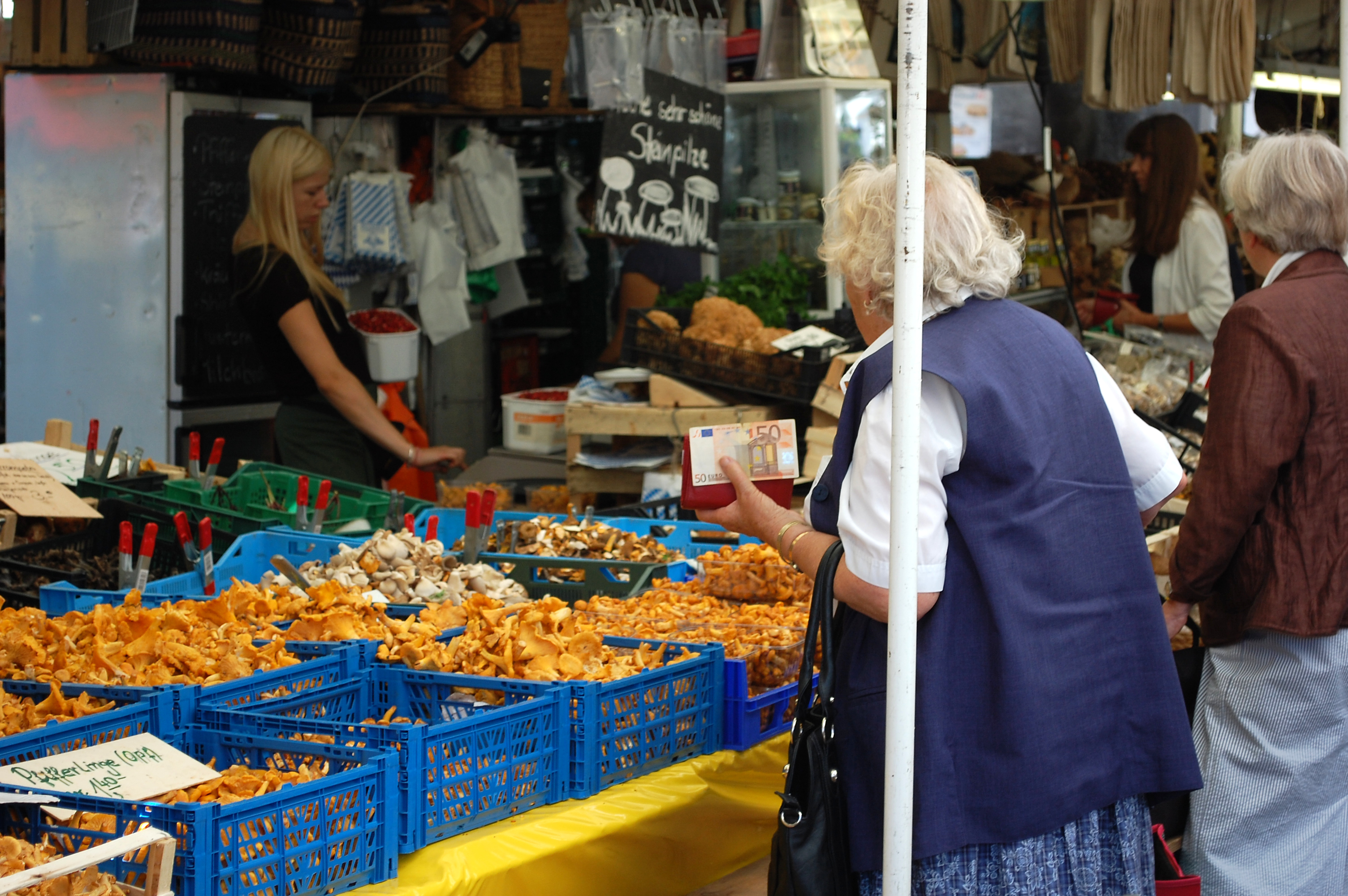 It was mushroom season in Munich in August with stalls selling steinpilz and pfirfferlinge here in the Victualien Market.